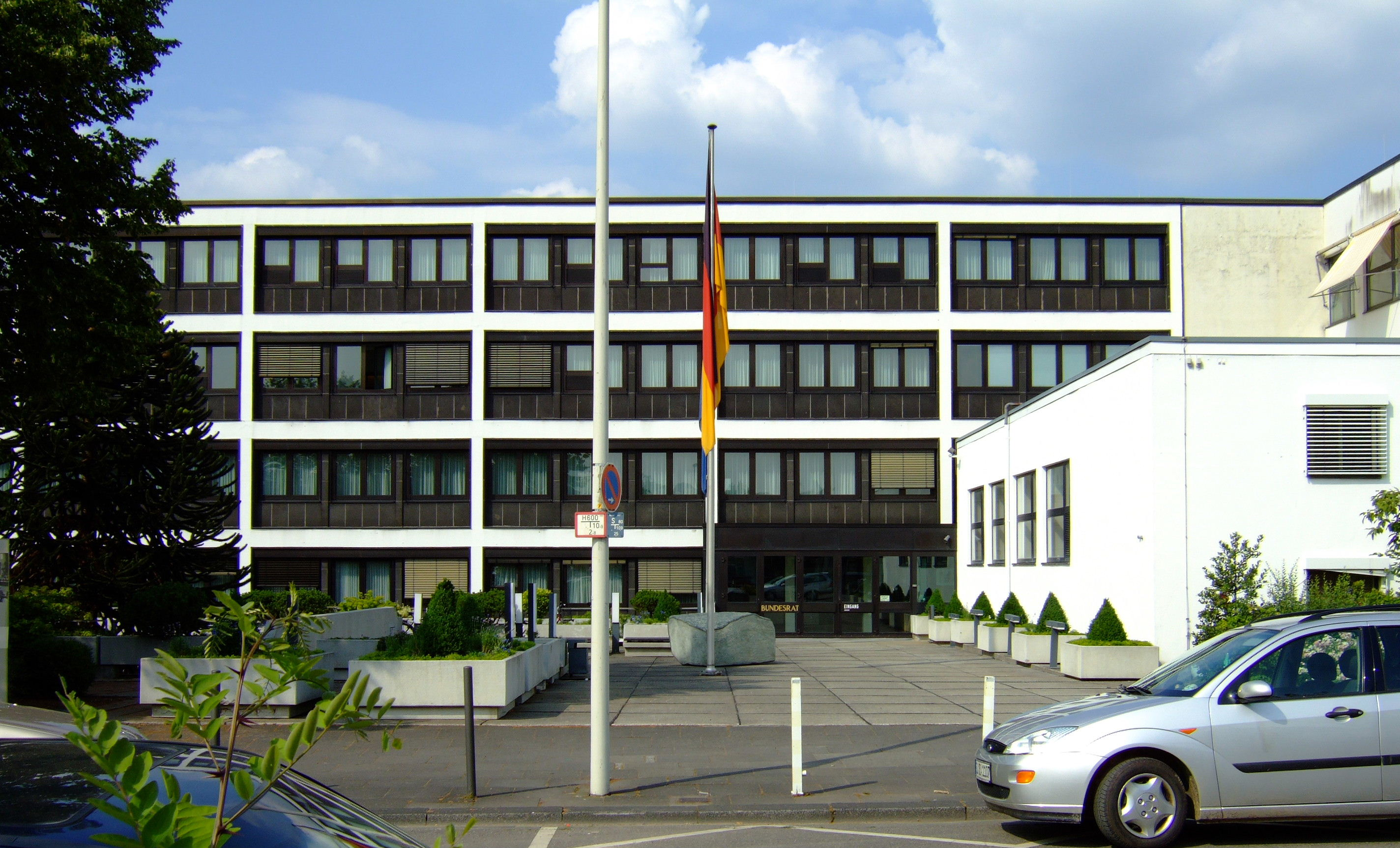 North wing of the Parliament Building (Bundeshaus) in Bonn, seccond official residence of the Bundesrat (upper house).